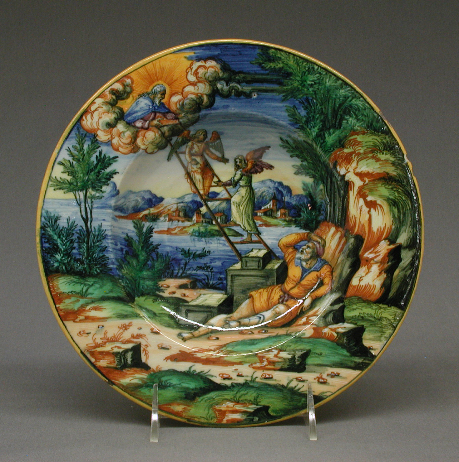 Italian, Urbino; Dish; Ceramics-Pottery